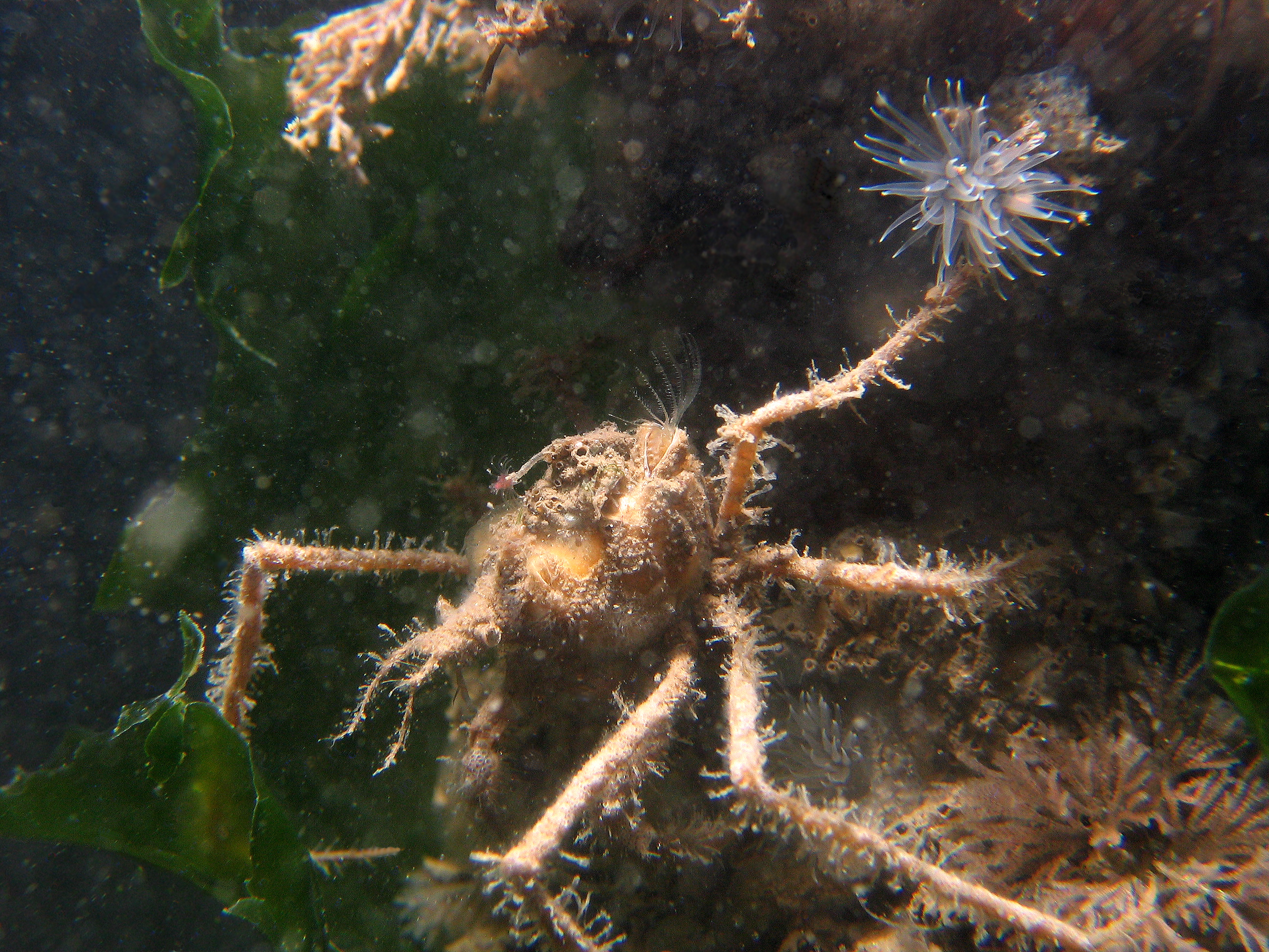 Long-legged crab, presumably Macropodia rostrata. Picture taken in the Oosterschelde.